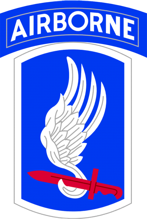 Shoulder Patch of 173rd Airborne Brigade